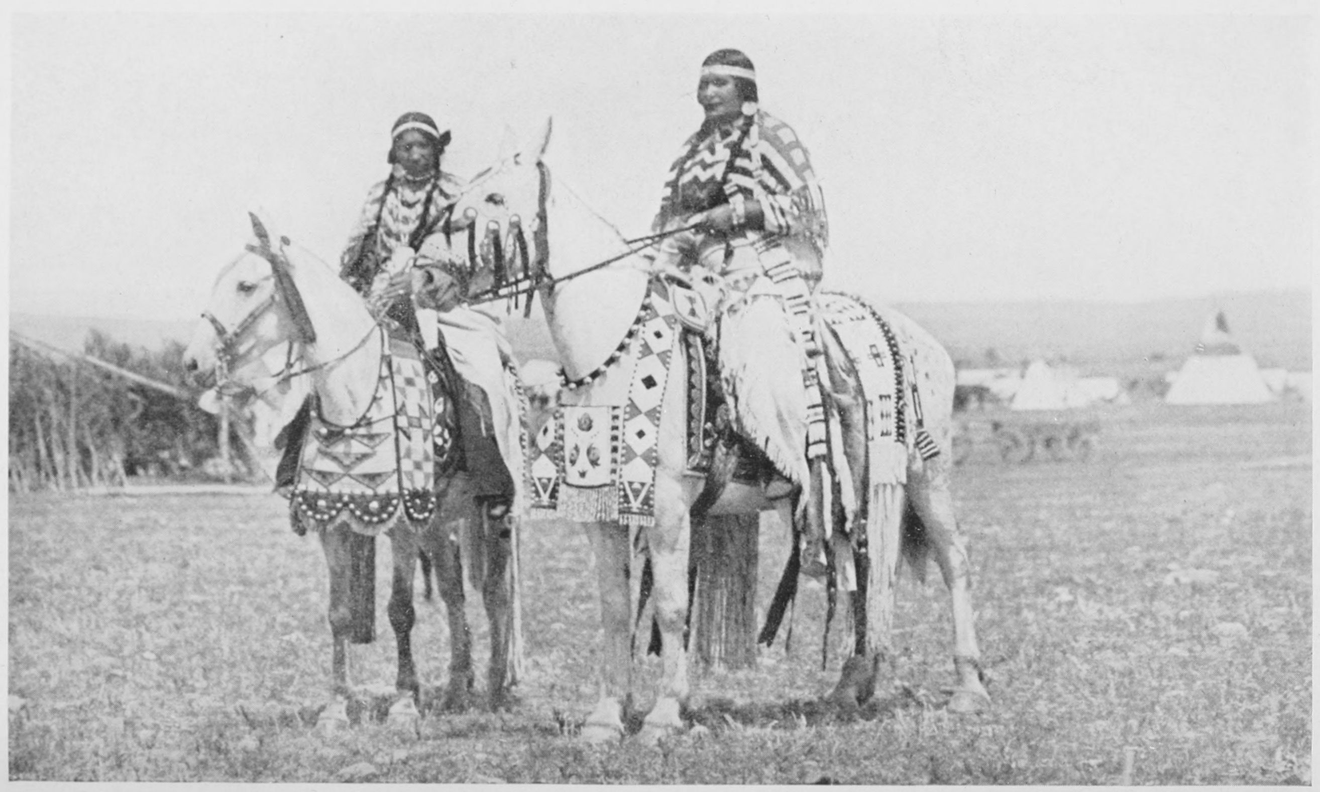 Fig. 40. The Decorative Art of the Plains Indians. Photograph of Blackfoot Women by Fred. R. Meyer